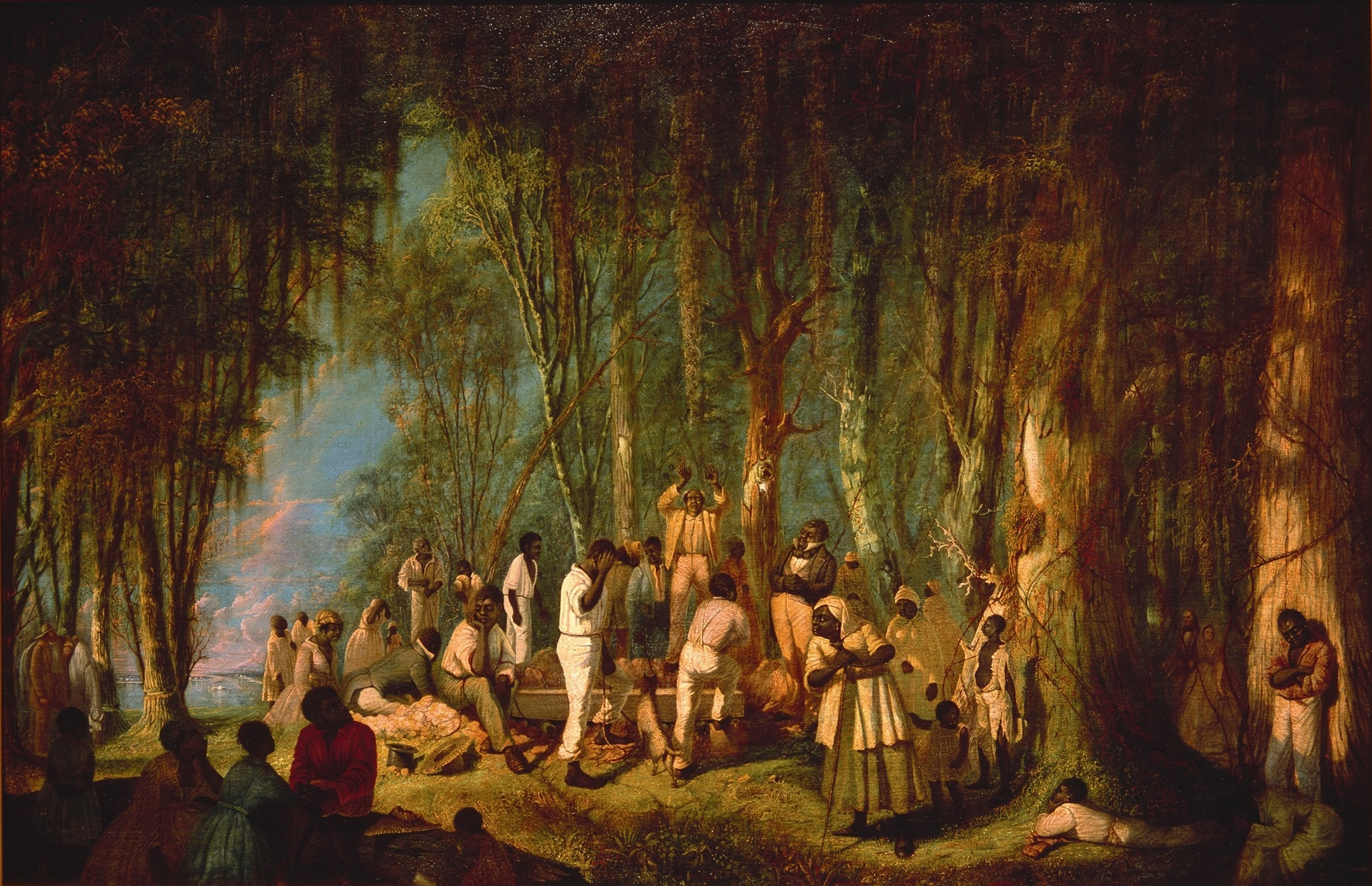 Plantation of the Mississippi governor, Tilghman Tucker